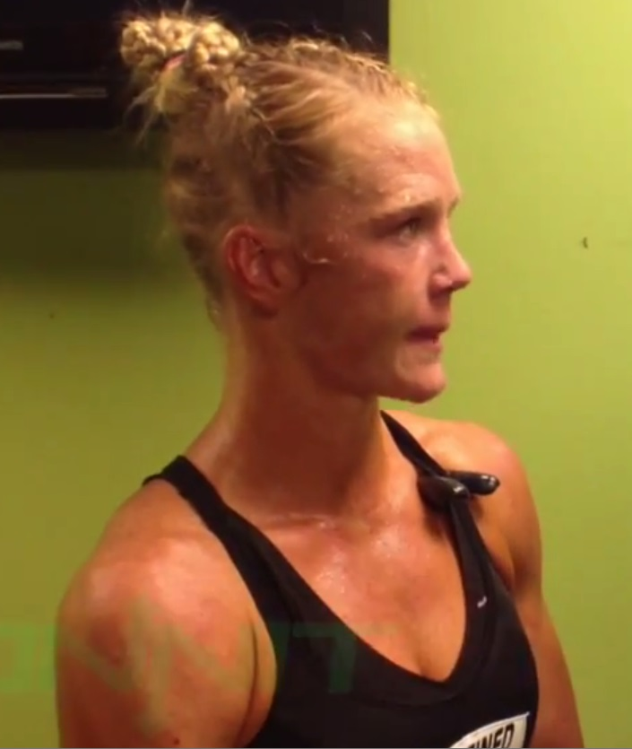 American mixed martial artist and boxer Holly Holm, interviewed by Mike Jackson, "MikeTheTruth".